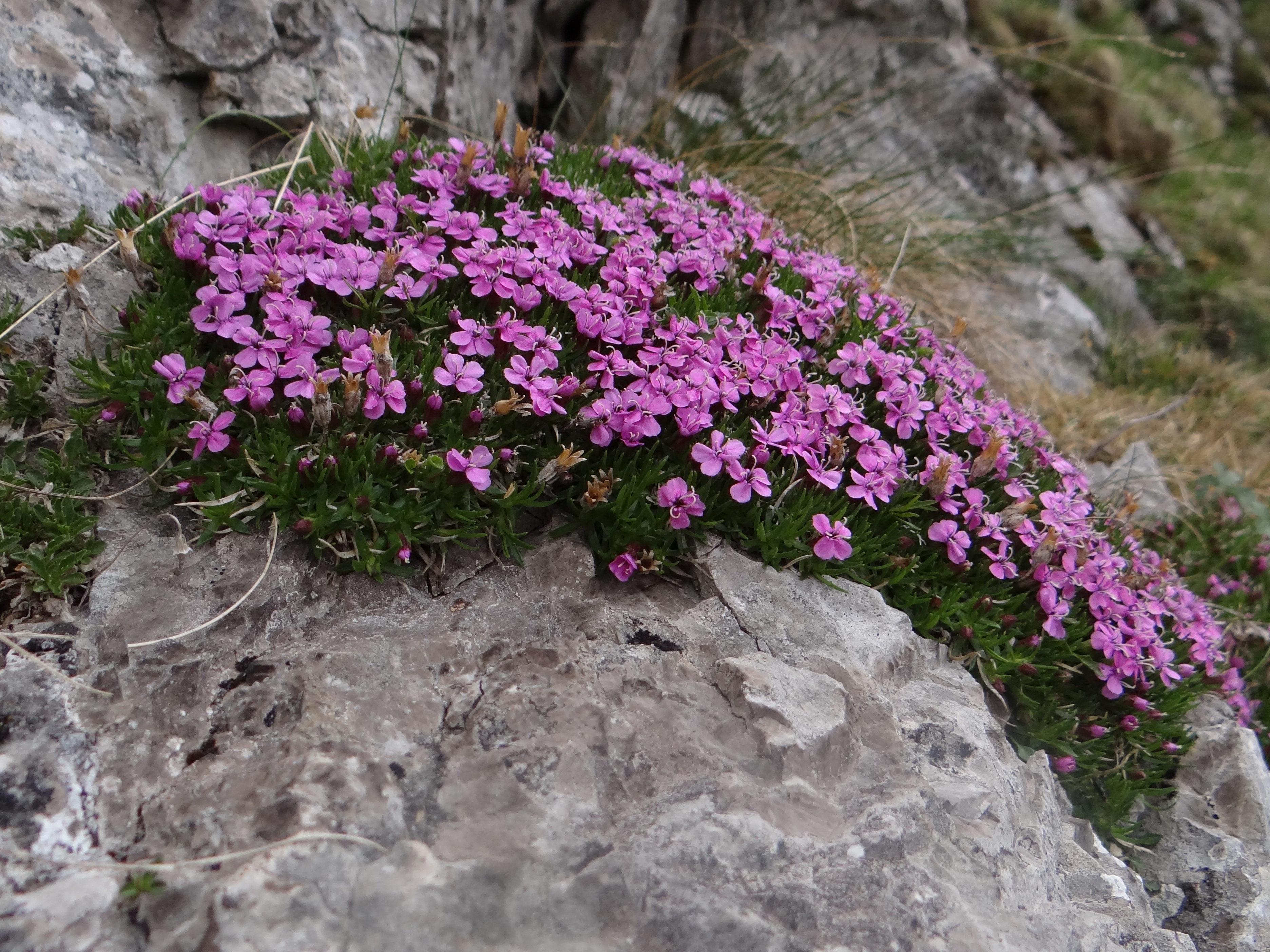 Silene acaulis. Location: Poland, Tatra Mountains, Kobylarzowy Żleb